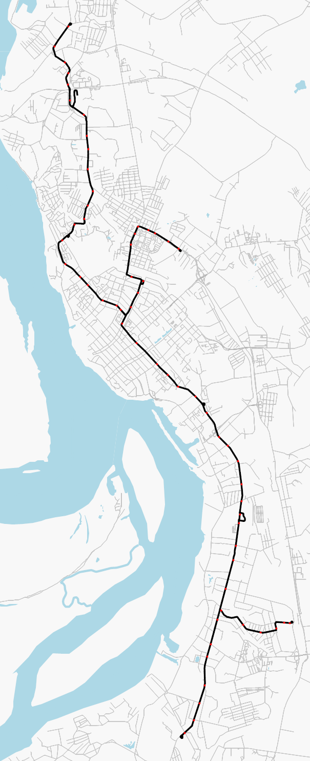 Khabarovsk tram system, rendered using OSM data. This map may be incomplete, and may contain errors. Don't rely solely on it for navigation.